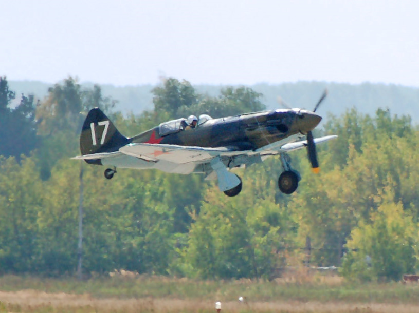 МиГ-3Р in flight (the international aerospace salon MAKS-2007)